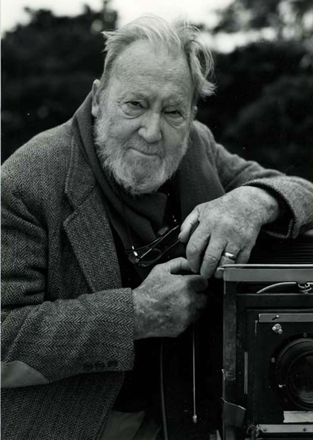 MB Portrait